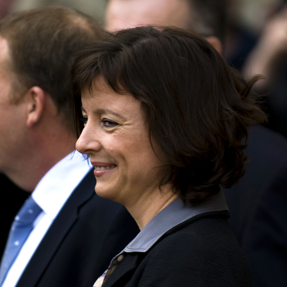 Karen Ellemann introduced as the new Minister for domestic and social affairs.